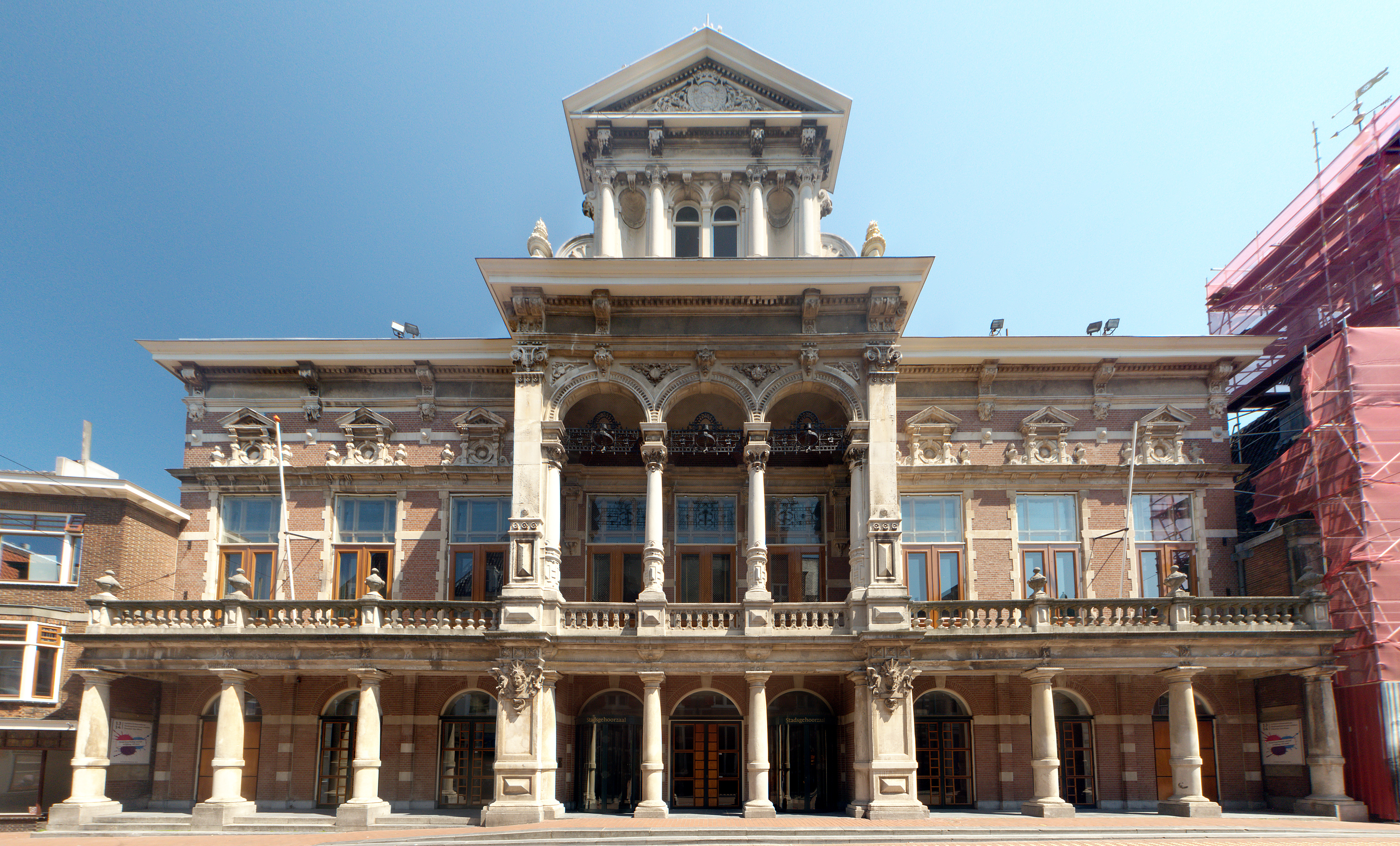 Leiden, Stadsgehoorzaal (Concert Hall)